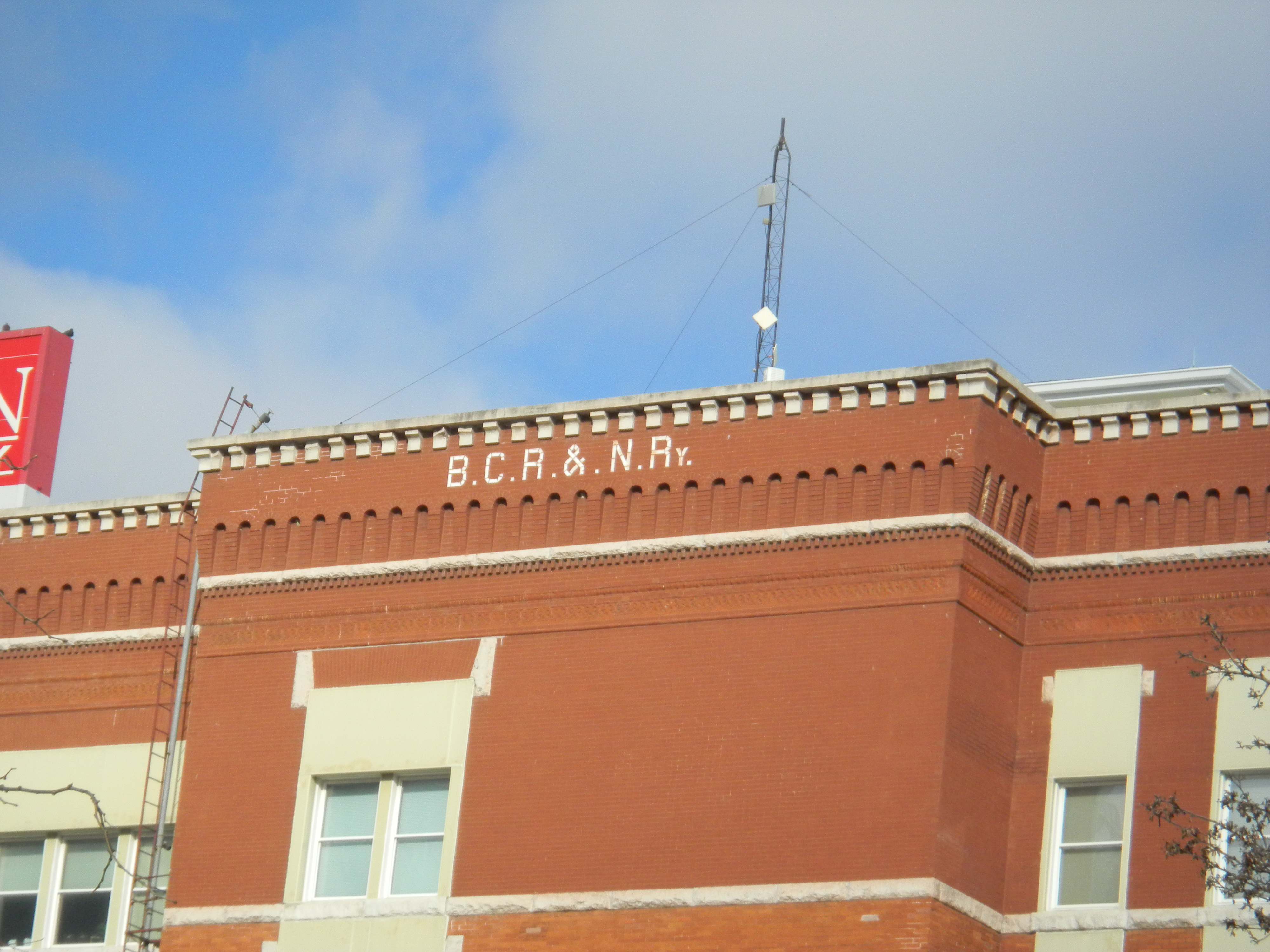 Initials on the side of the former corporate headquarters of the Burlington, Cedar Rapids and Northern Railway, currently a Skogman Realty office in Cedar Rapids, Iowa